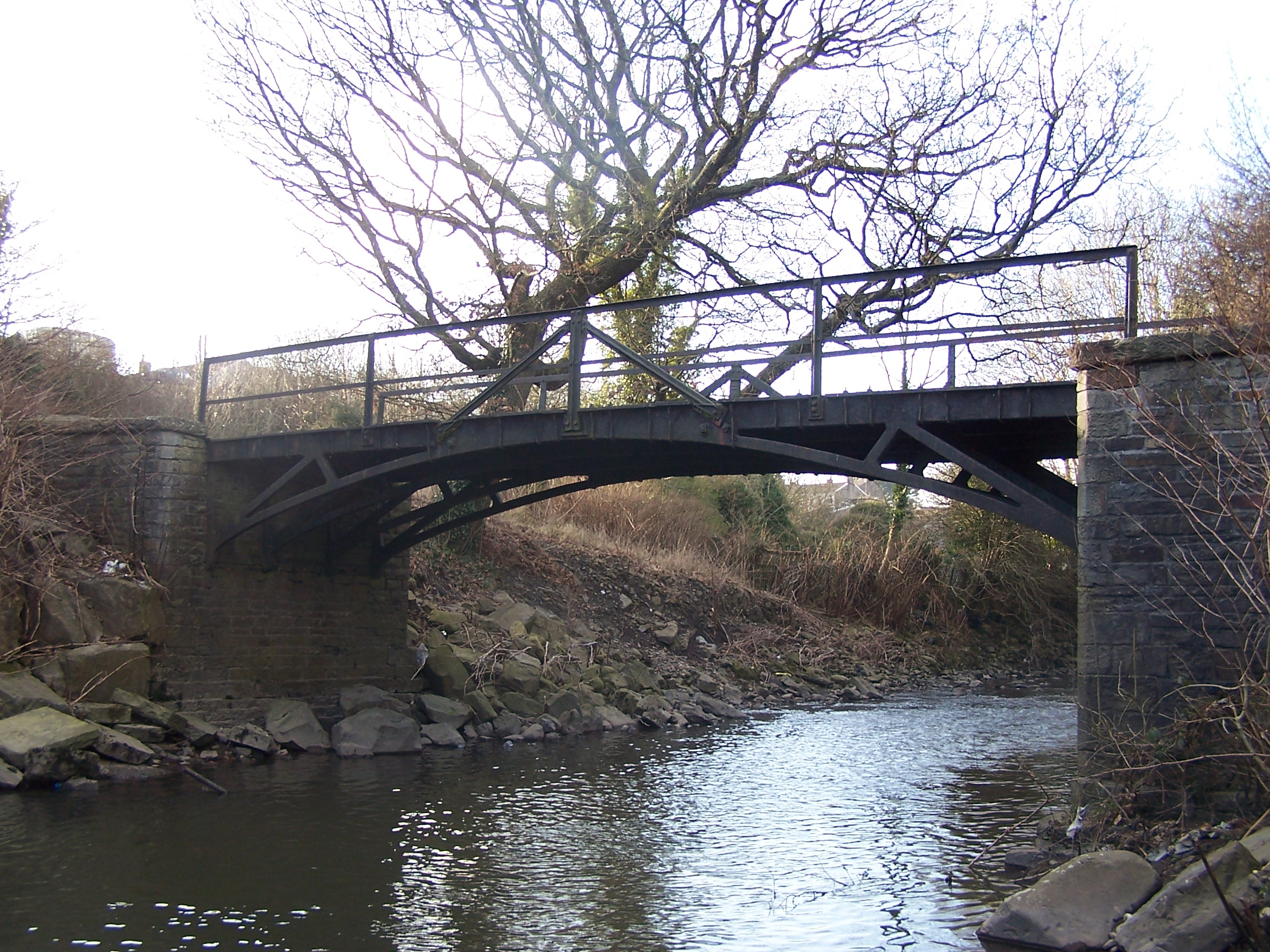 Built around 1811. OS grid reference SN997037 This cast iron bridge across the River Cynon between Trecynon and Robertstown is one of the oldest surviving "railway" bridges in the world. The bridge was built by the Aberdare Canal Company to carry the tramway that runs from Hirwaun to the canal head at Cwmbach. The Engineering Times Online describes it thus : "Cast iron brackets are built into the stone abutments, and from these spring the four, trussed cast-iron beams which support the deck. These arched beams are only 3in thick, and rise from a depth of more than 5ft at the abutments to 1ft at the bridge's centre. The deck is 36ft 8in long and made up of cast iron plates, each 9ft 11in wide. The tramway is closed and the bridge is now used by pedestrians." Published by Aberdare Blog